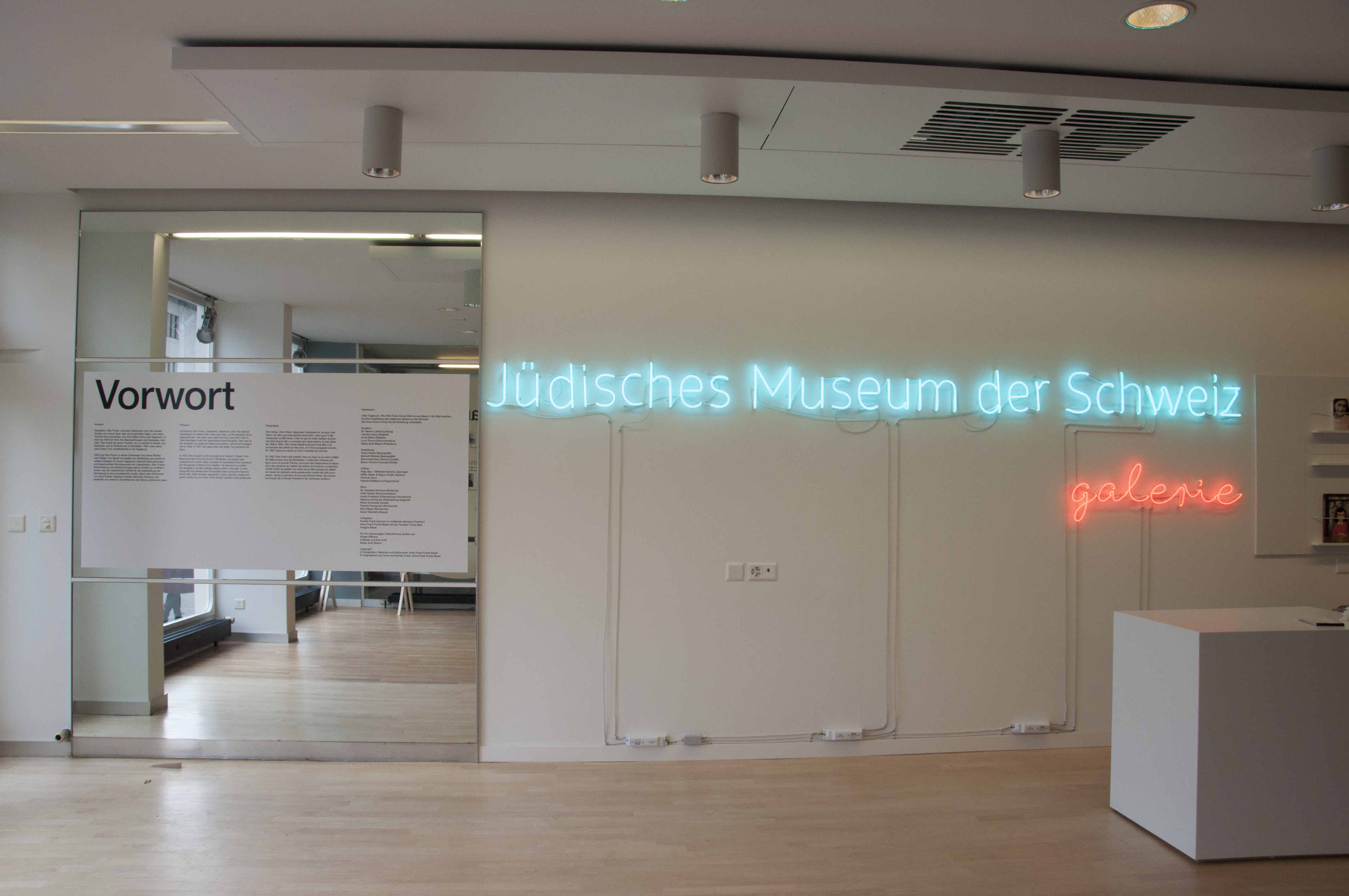 Jewish Museum of Switzerland, New Location near the University of Basel